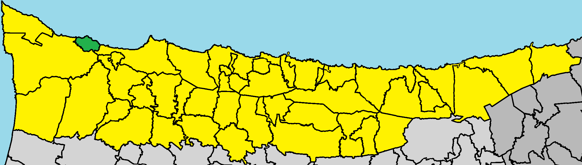 Orka in Kyrenia District (de jure).